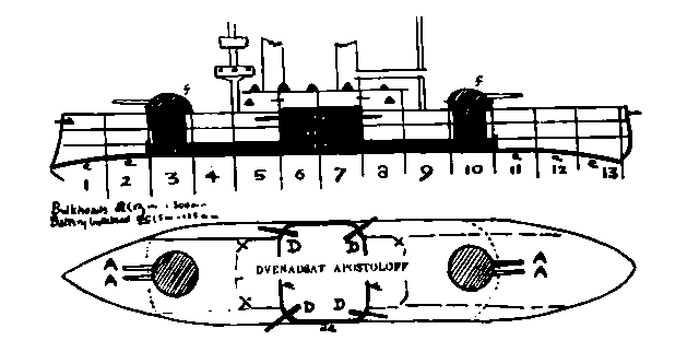 Plan and side view diagram of the Russian battleship Dvenadsat Apostolov